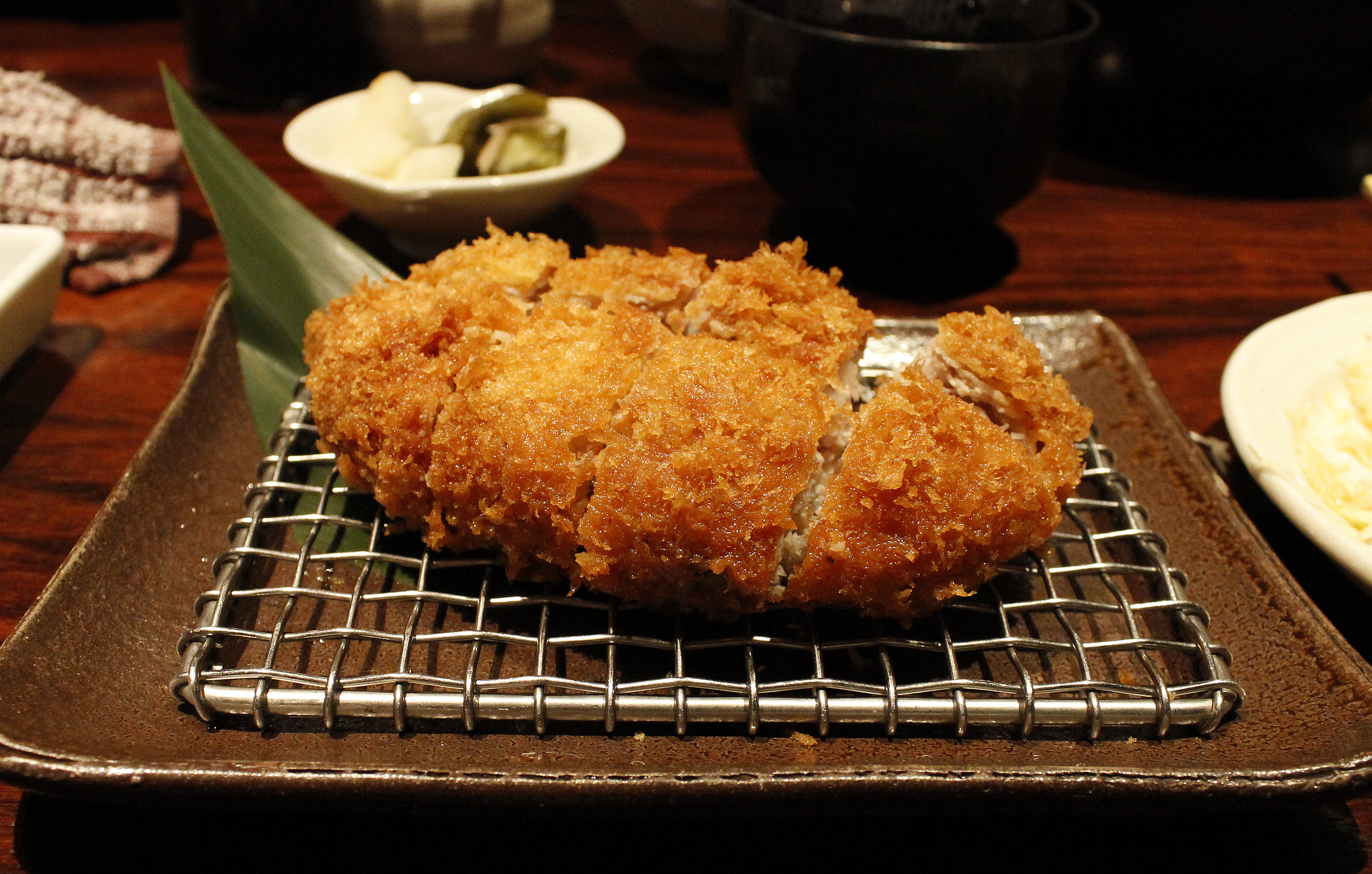 Tonkatsu of Kimukatsu